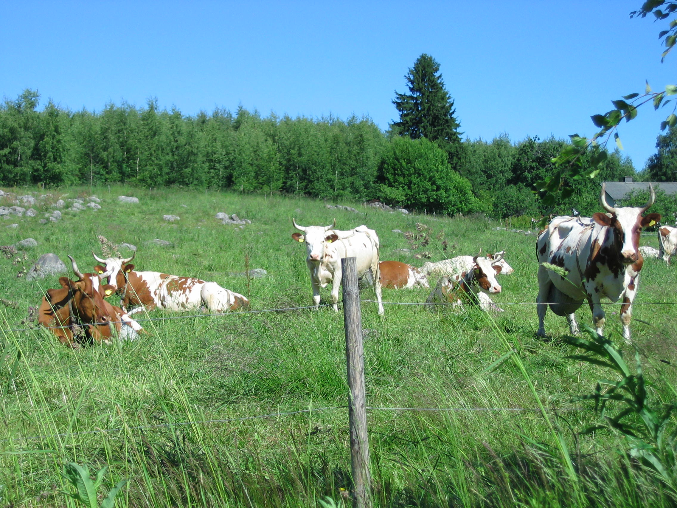 A countryside pasture with Finnish Ayrshire cattle, Savikumpu village in Parikkala, Southern Karelia, Finland.